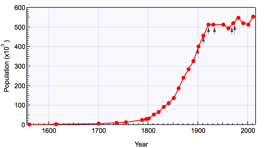 Population of Sheffield from 1700 through to 2011. From 1700 to 1843 the area covered is the Parish of Sheffield. After 1843 the area covered is that of the Borough of Sheffield, which gained City status in 1893. This was equivalent to the area of the former Parish of Sheffield until 1900. Arrowheads indicate the dates at which the boundaries of the city were significantly extended.